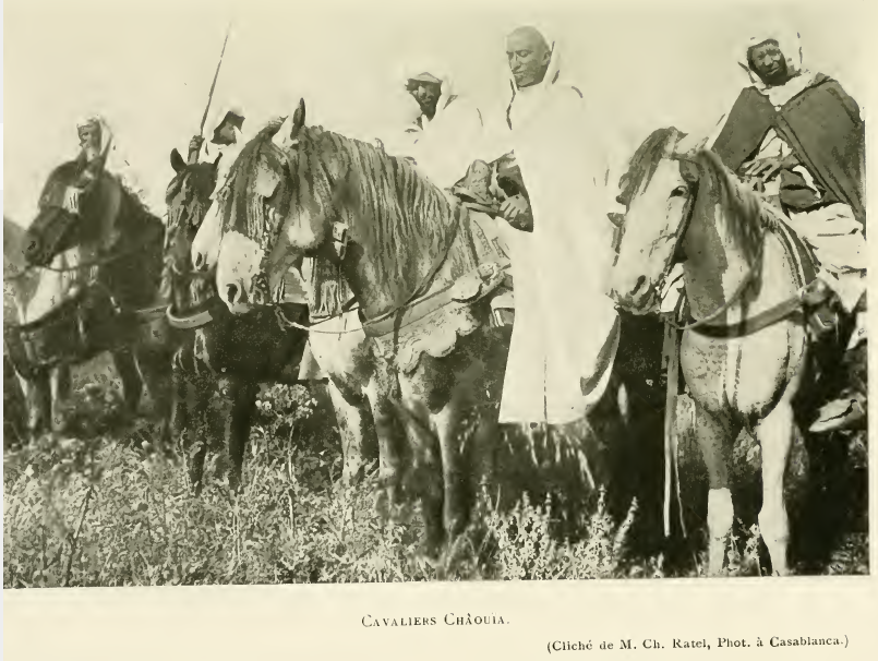 Cavaliers de la tribu Mediouna - 1915